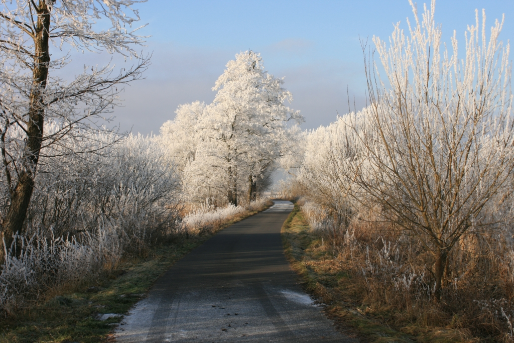 Havelland-bicycle lane by Senzke in Brandenburg, Germany